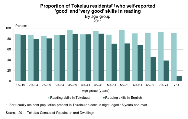 Proportion of Tokelau residents who self-reported 'good' and 'very good' skills in reading by age group in the 2011 Census